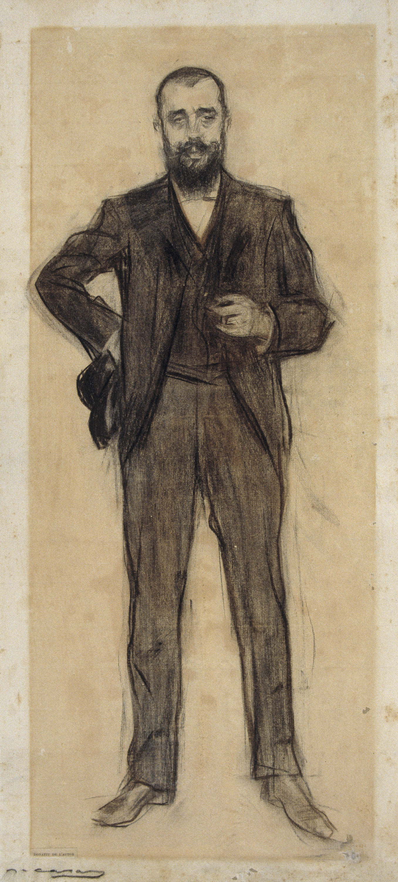 Portrait by Ramon Casas conserved at MNAC in Barcelona.